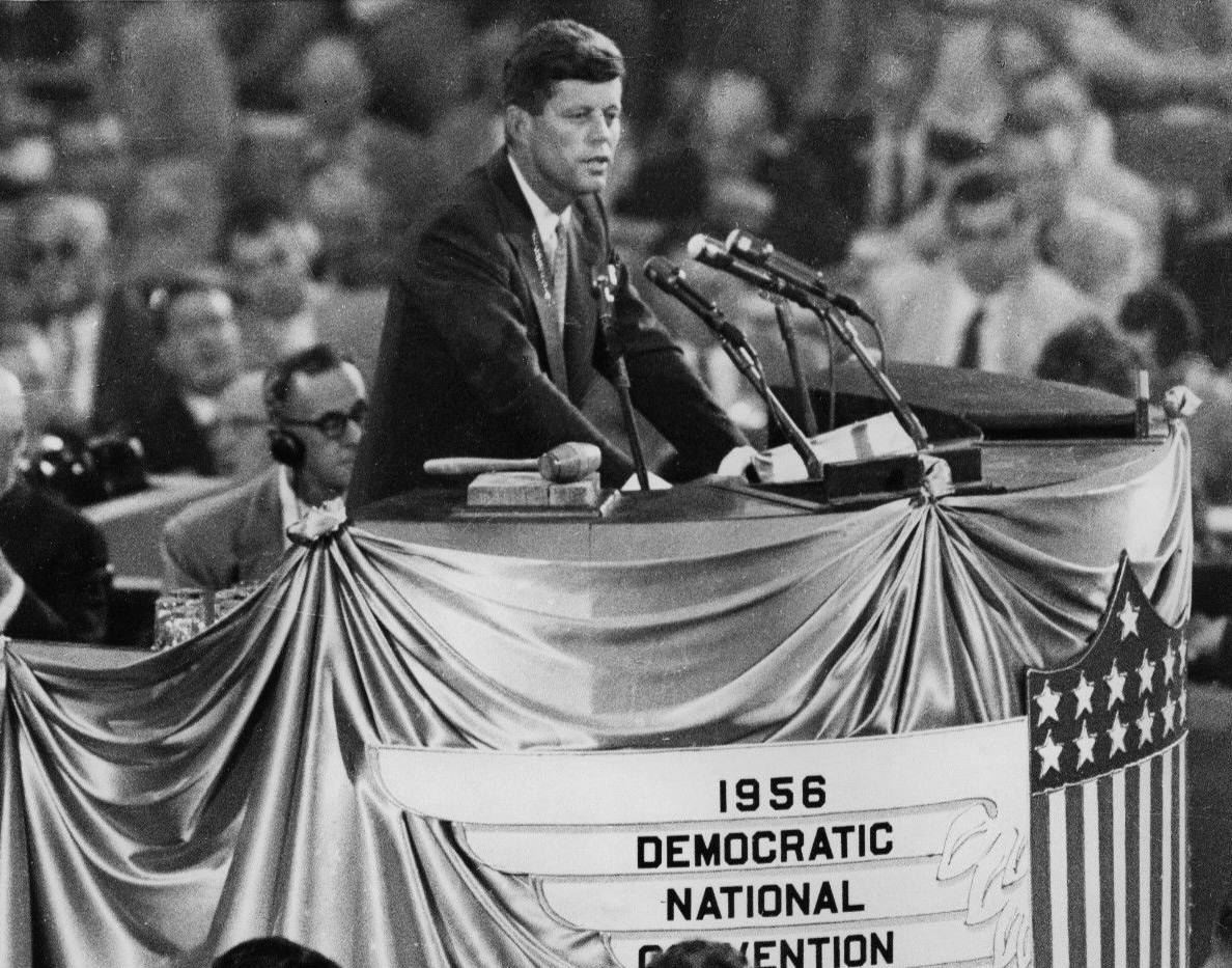 Photo of Senator John F. Kennedy placing the name of Adlai Stevenson into nomination as the Democratic presidential candidate for 1956 in Chicago.